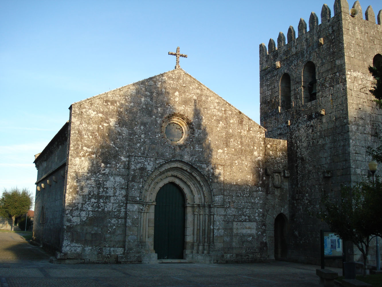 Santa Maria de Abade de Neiva Church This file was uploaded for Wiki Loves Monuments in Portugal with the unique identifier 70392.